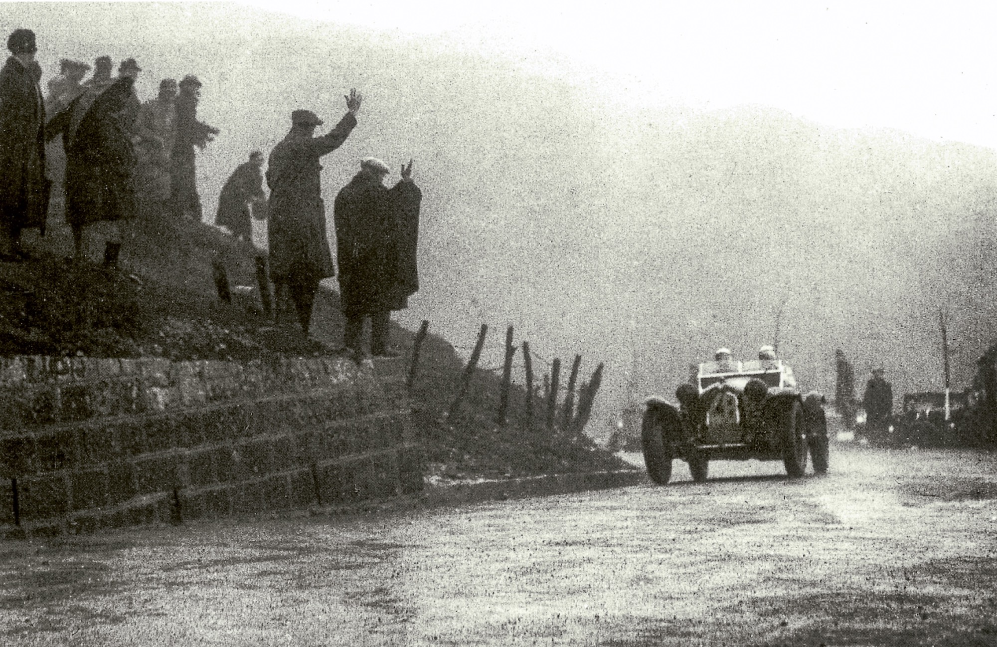 The winners of Mille Miglia on 08 April 1934 was Achille Varzi and Amedeo Bignami driving this Alfa Romeo 8C 2600 by Brianza (entry #48).